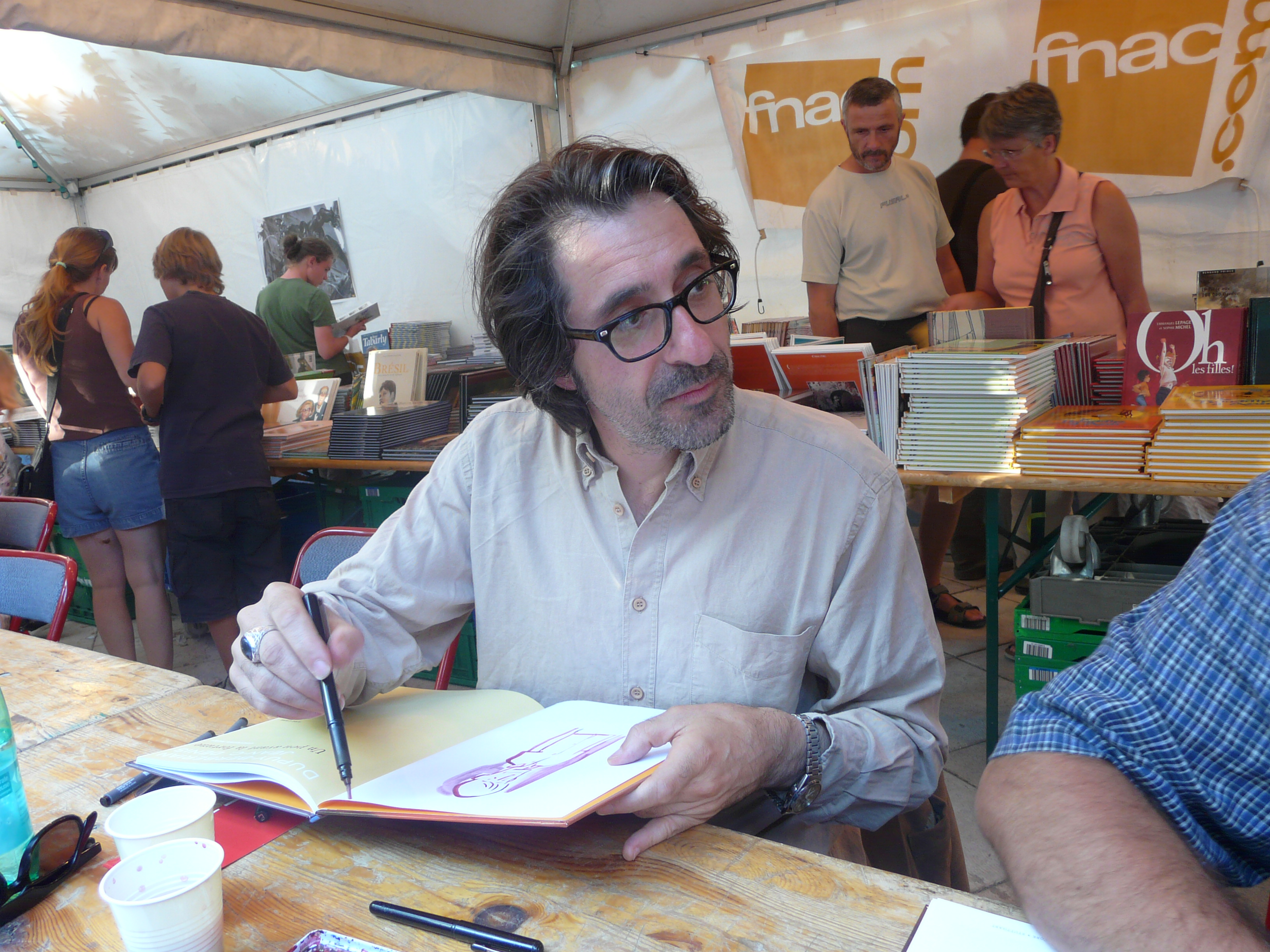 Photographs taken during the International Comic Festival of Sollies Ville, France